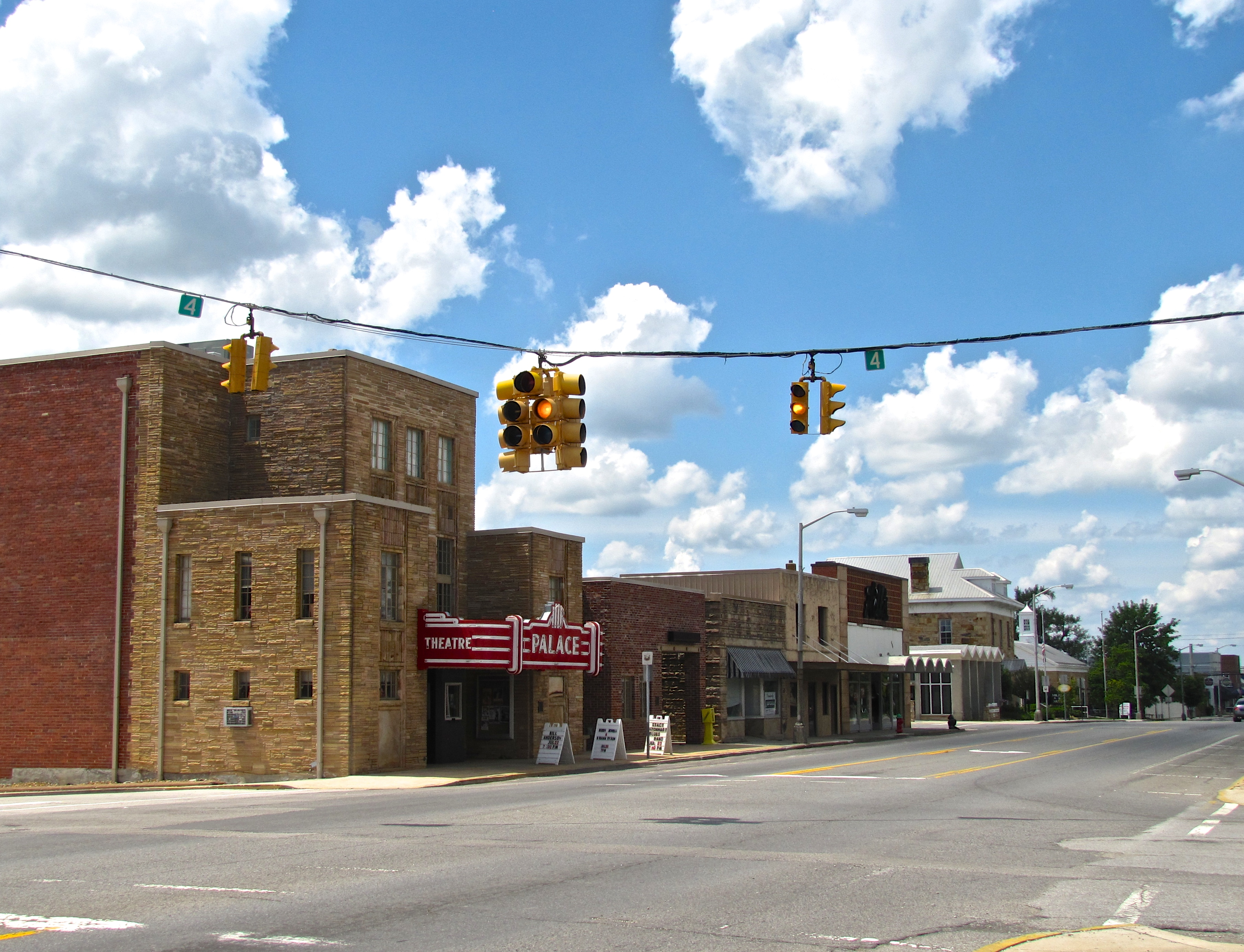 Buildings along South Main Street (U.S. Route 127) in Crossville, Tennessee, United States. The Palace Theater is on the left.